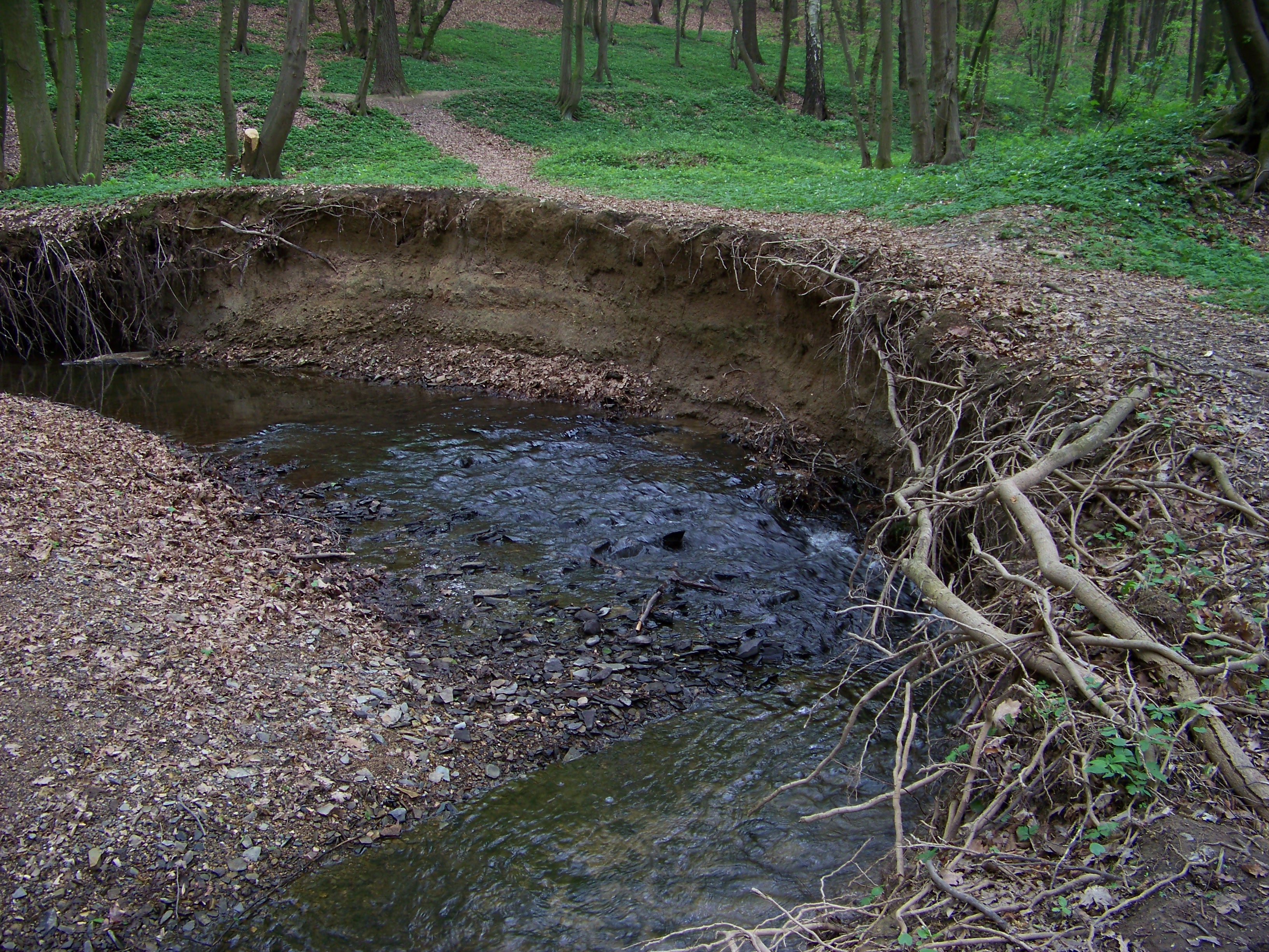 Prague-Nedvězí, Czech Republic. Mýto nature reserve, Rokytka creek, Big Meander.